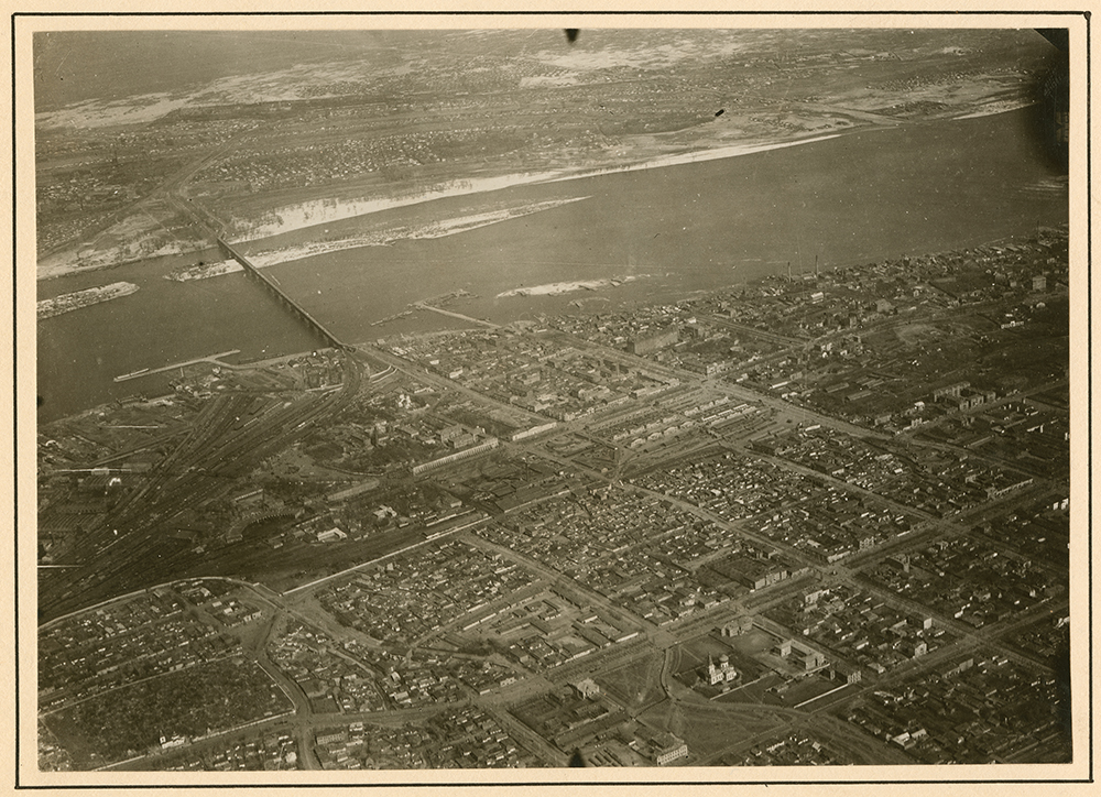 Title: [Aerial photograph, Ukrainian city of Yekaterinoslav, now called Dnipropetrovs'k] Creator: Unknown Date: Spring 1918 Part Of: Place: Dnipropetrovs'k, Dnipropetrovs'ka Oblast, Ukraine Physical Description: 1 photographic print: gelatin silver; 12 x 16 cm. on 34 x 44 cm. mount File: ag1982_0048x_09c_sm_opt.jpg Rights: Please cite DeGolyer Library, Southern Methodist University when using this file. A high-resolution version of this file may be obtained for a fee. For details see the web page. For other information, . Both the full portfolio and the 263 individual photographs, scanned at a higher resolution, are available. View the full portfolio: View the individual photographs: For more information, View the